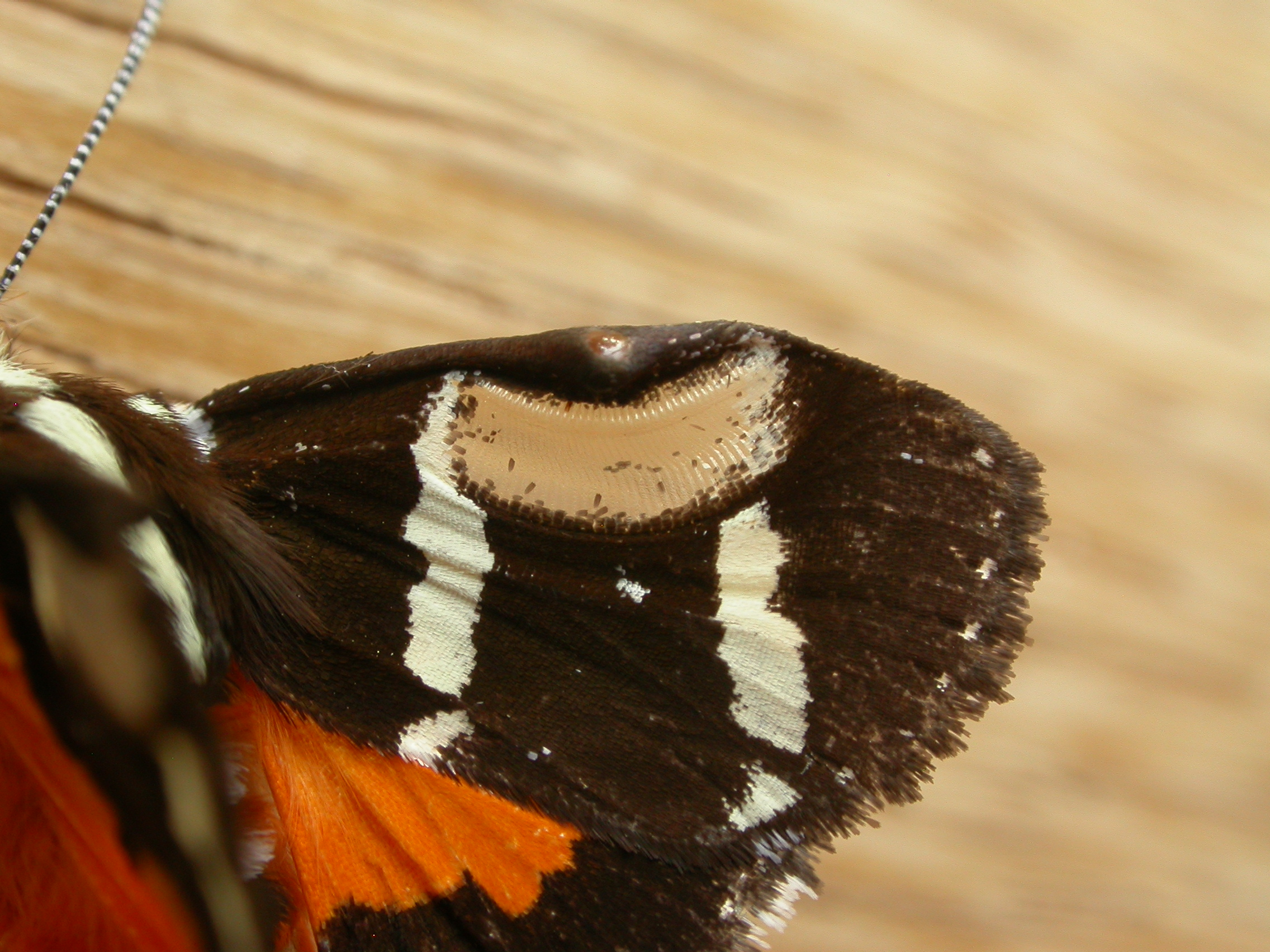 Hecatesia fenestrata Boisduval, 1828, male, to MV light, Aranda, ACT, 9.00 p.m., 21 November 2010. Wing detail. This is a male Whistling Moth, able to produce a whistling sound with the knobs on the costa of the forewing and the ribbed, scale-free areas just behind the knobs. According to Common, Moths of Australia, it is usually the females (which lack these characters) which come to light.